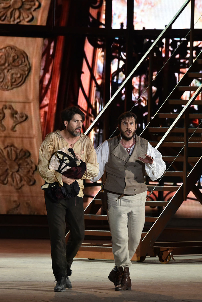 Tosca, Sankt Margarethen, 2015